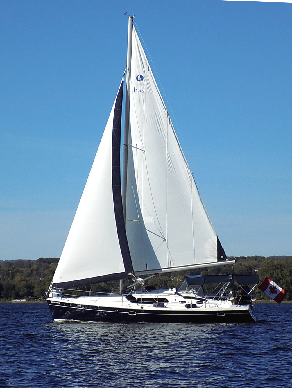 A Hunter 45 DS sailboat on Lac Deschênes, part of the Ottawa River, Ottawa, Ontario, Canada.